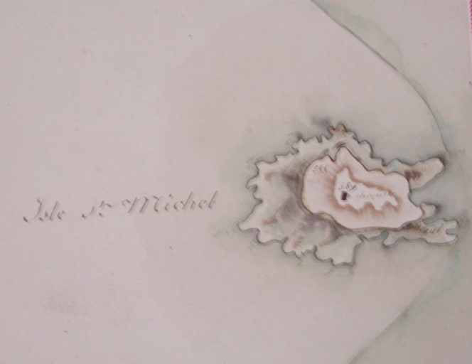 Map of Îlot Saint-Michel by O'Murphy (surveyor), Cadastre, 1810